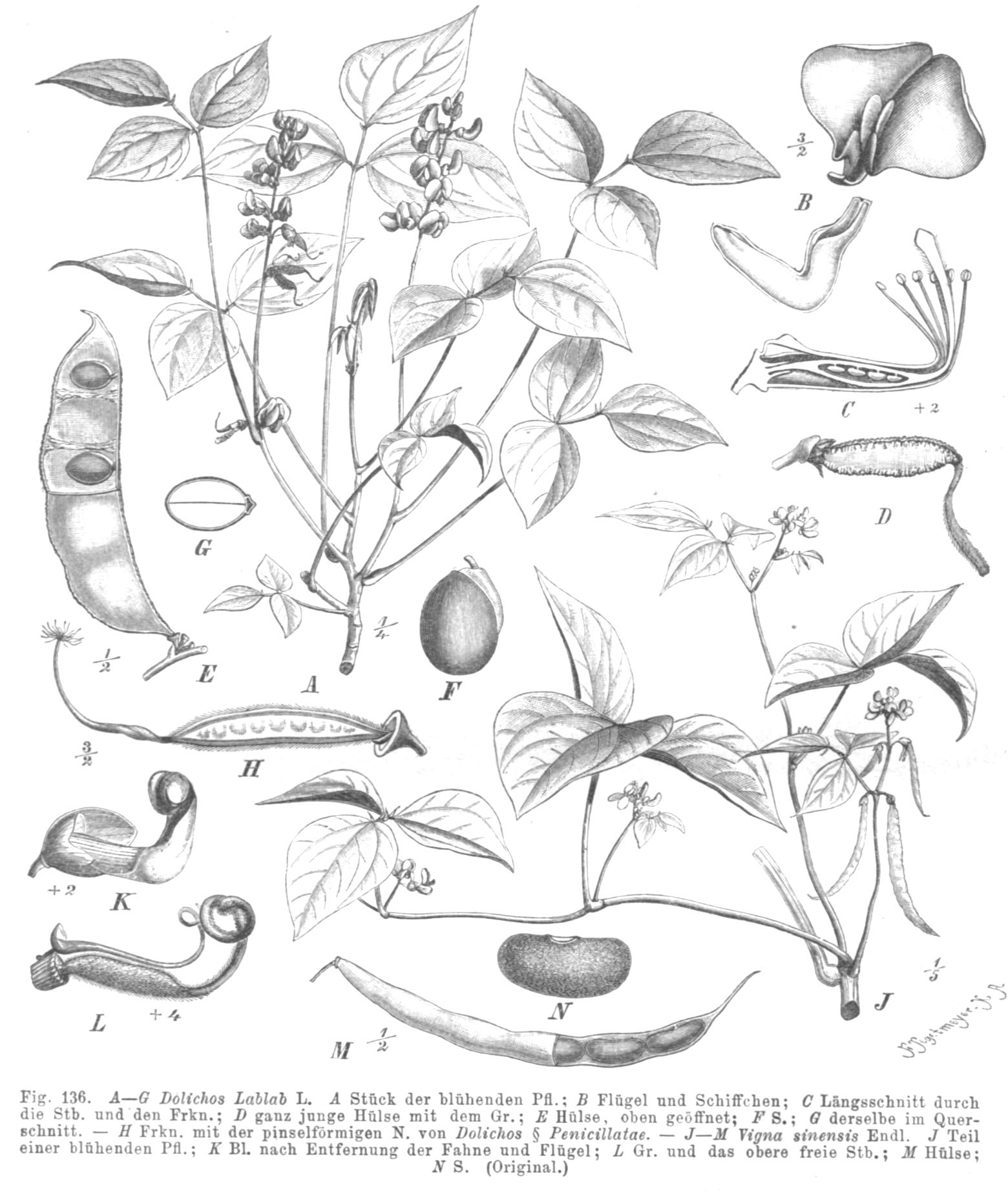 Illustration from book A - G, Dolichos lablab (= Lablab purpureus) H, Dolichos J - M, Vigna sinensis (=Vigna unguiculata subsp. unguiculata)